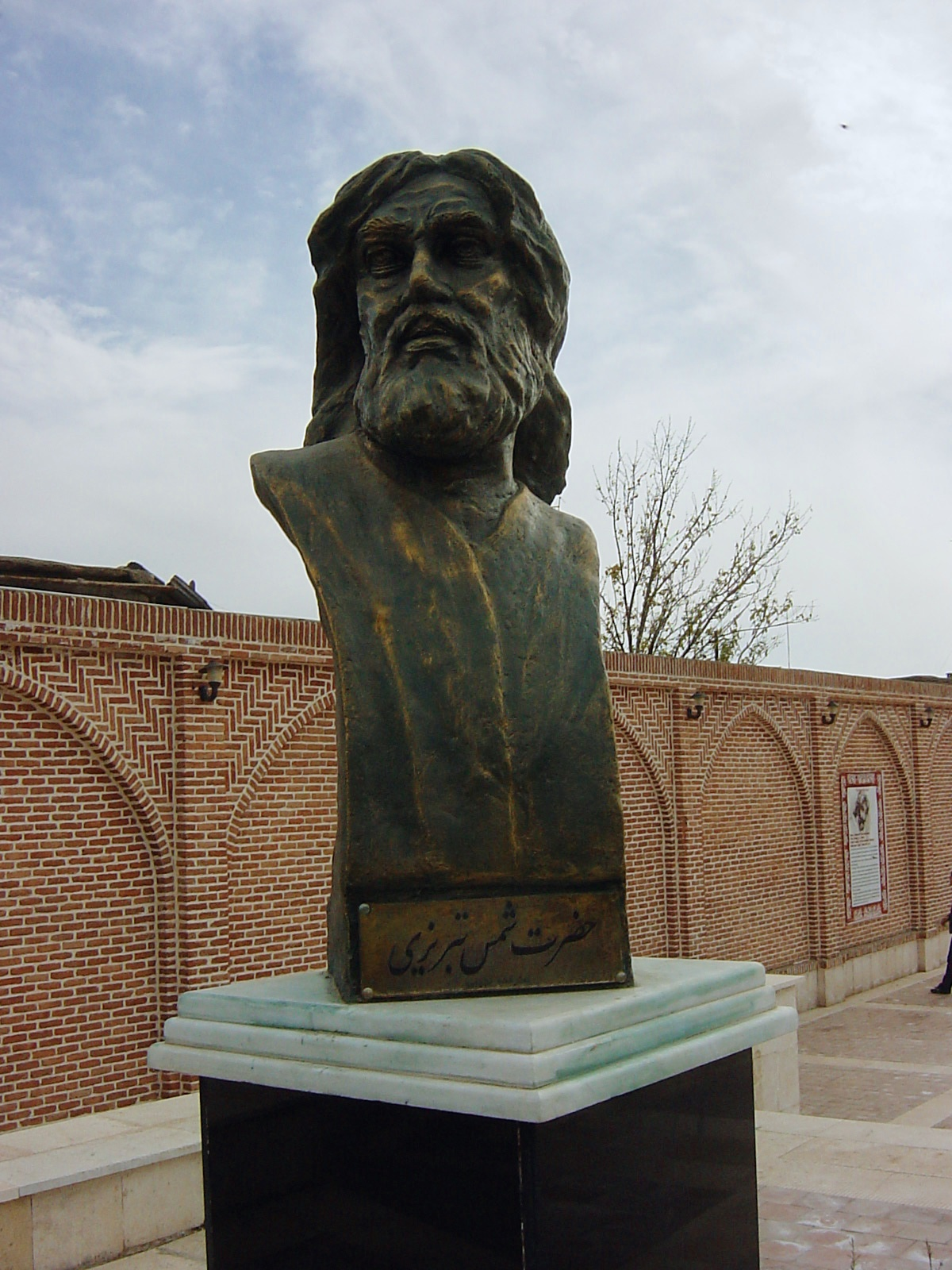 Khoy - Shams Tabrizi's tomb 8 - Information in page 1